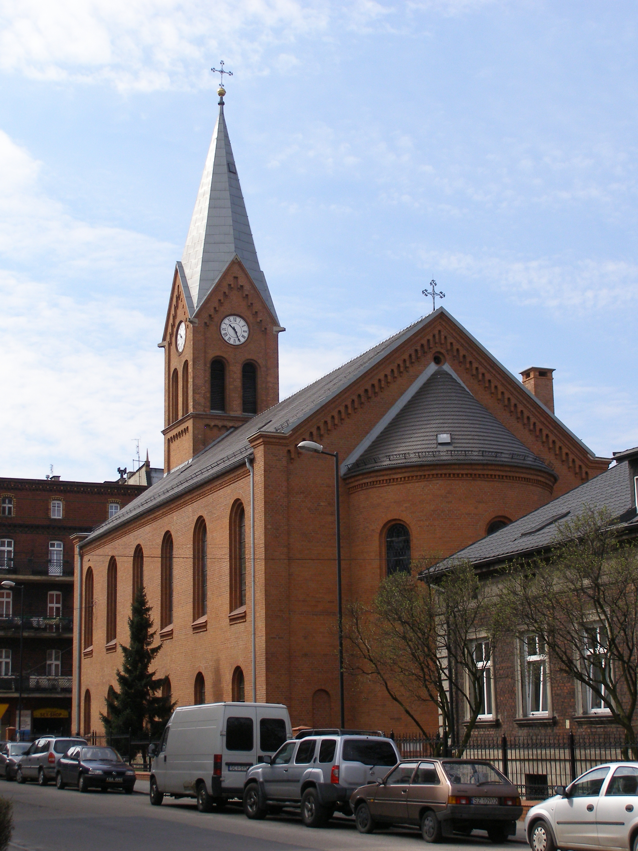 Zabrze - Lutheran church